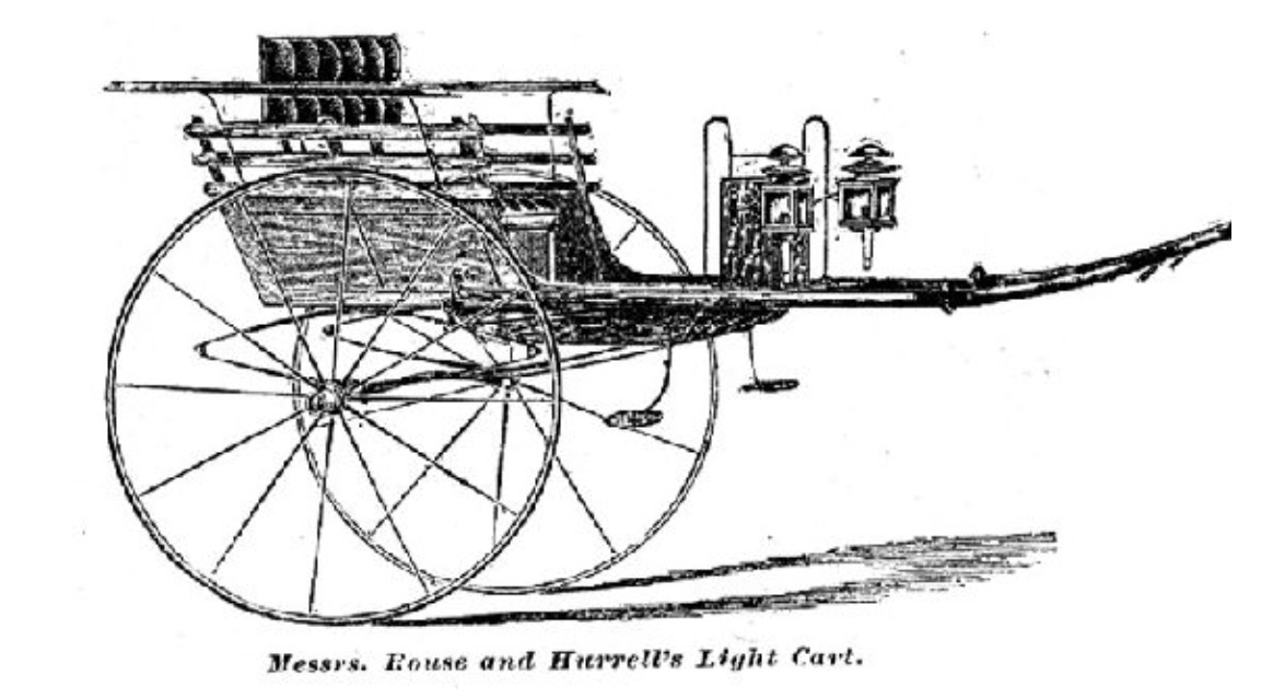 A light horse drawn carriage made in Wellington New Zealand by Rouse & Hurrell before 1897